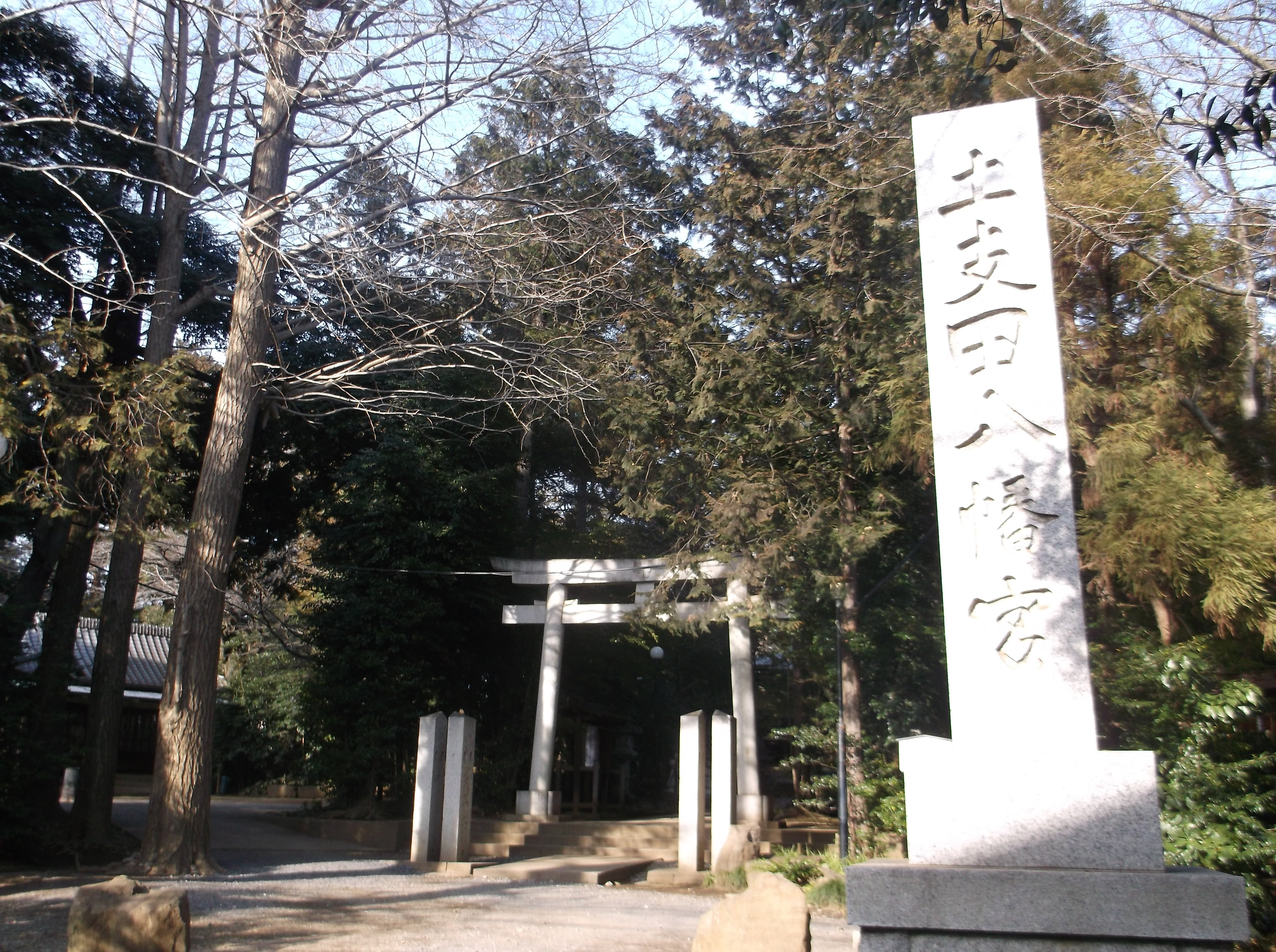 A photo of Doshida Hachimangu(Shrine),Doshida,Nerima-ku,Tokyo,Japan.